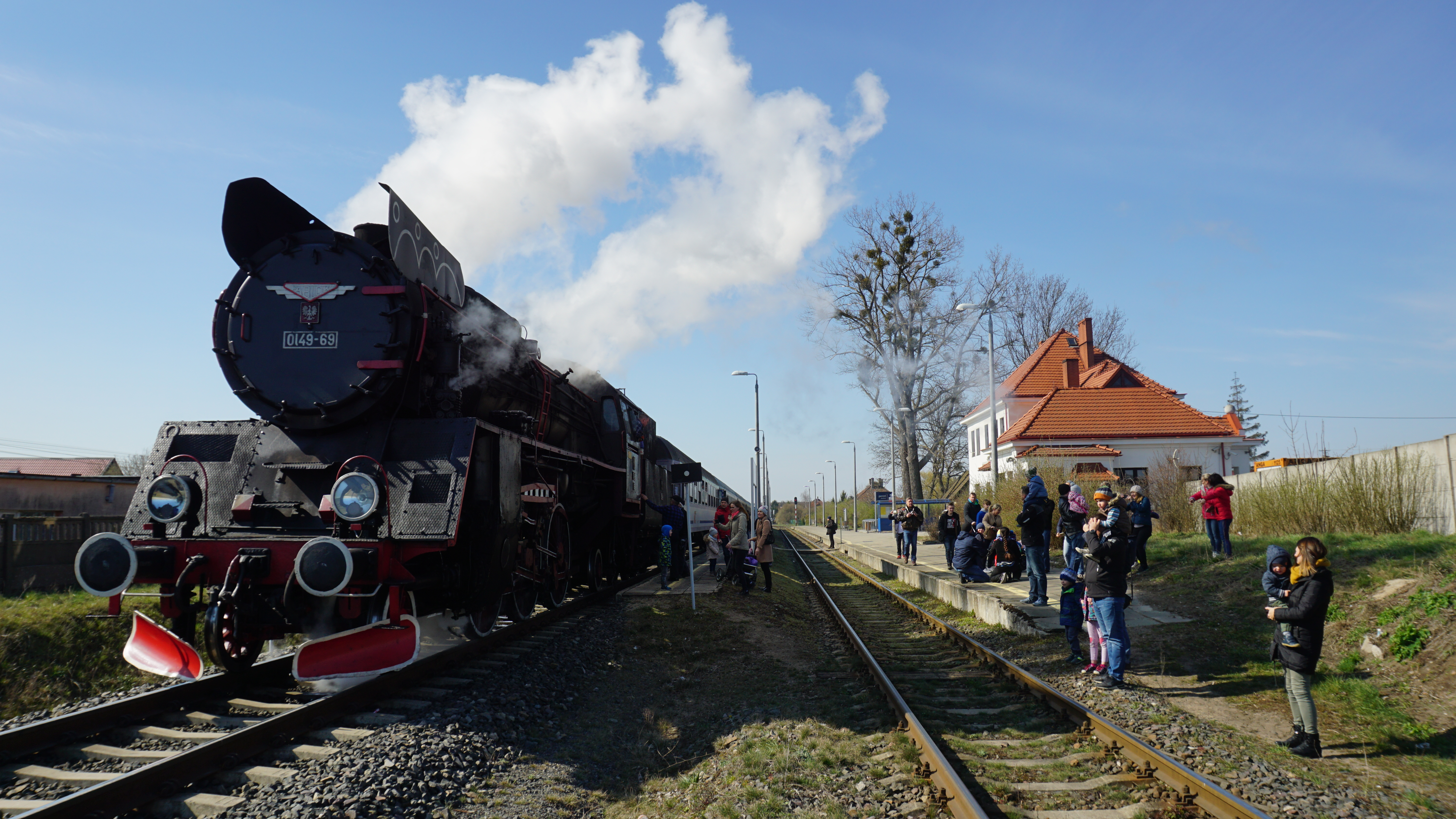 Steam locomotive Fablok Ol49-69 with historic cars at the Żukowo Wschodnie station